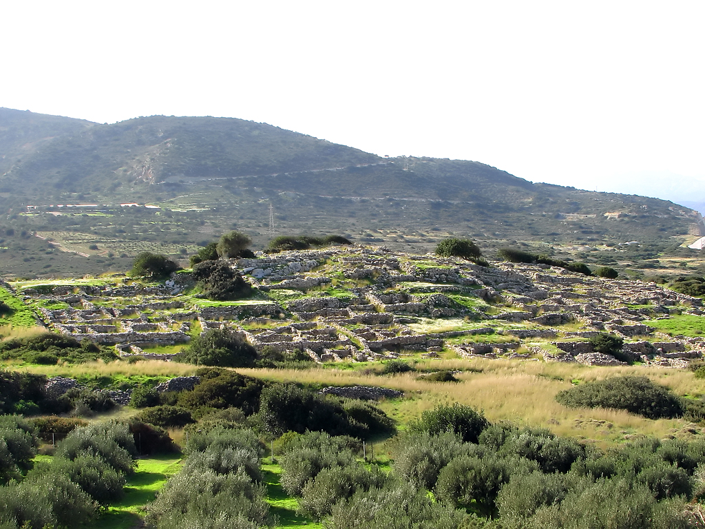 Gournia Minoan Palace in Crete, Greece seen from the east.